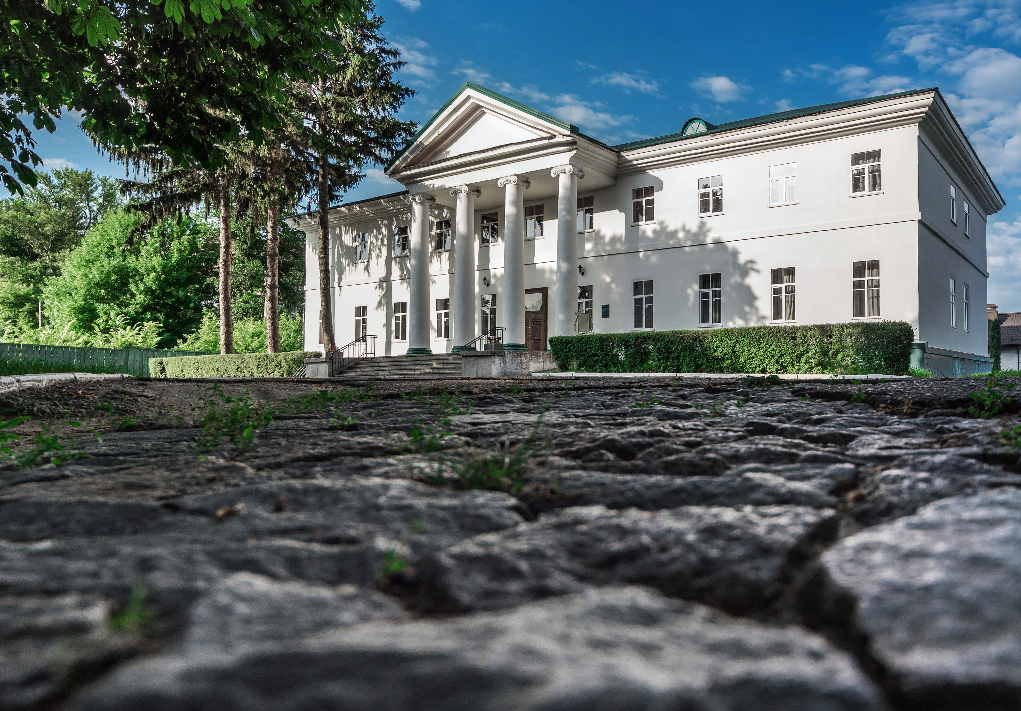 Branytski Winter Palace, Bila Tserkva, Kyiv Oblast, Ukraine